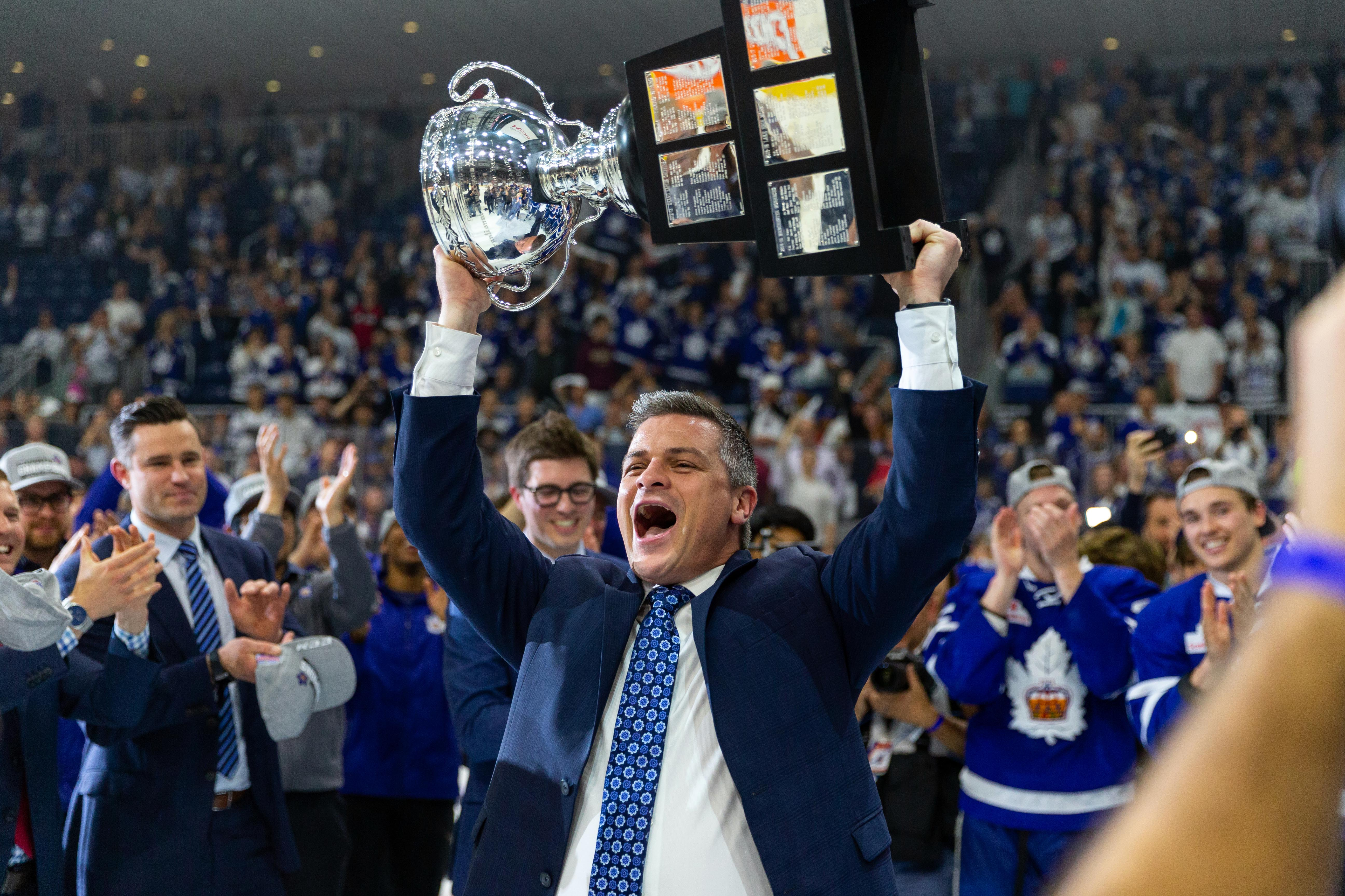 Photo: Thomas Skrlj/AHL